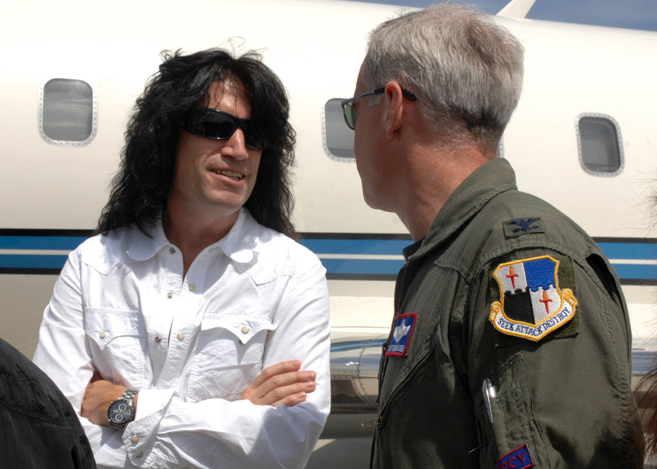 Original caption: “SPANGDAHLEM AIR BASE, Germany 52nd Fighter Wing vice commander Col. Thomas Feldhausen greets Kiss guitarist Tommy Thayer on the flight line June 26, 2008. The band Kiss made a stop at Spangdahlem before headlining their Eur08 Kiss Alive 35 concert held in Luxembourg the same day. ”